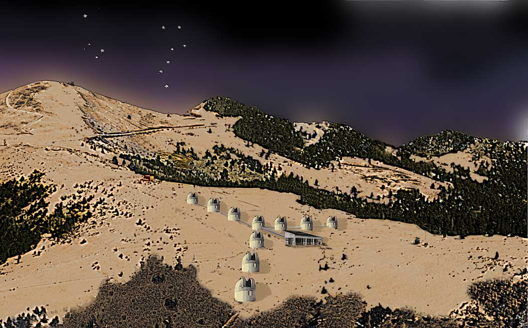 Illustration of proposed Magdalena Ridge Observatory Interferometer telescope array